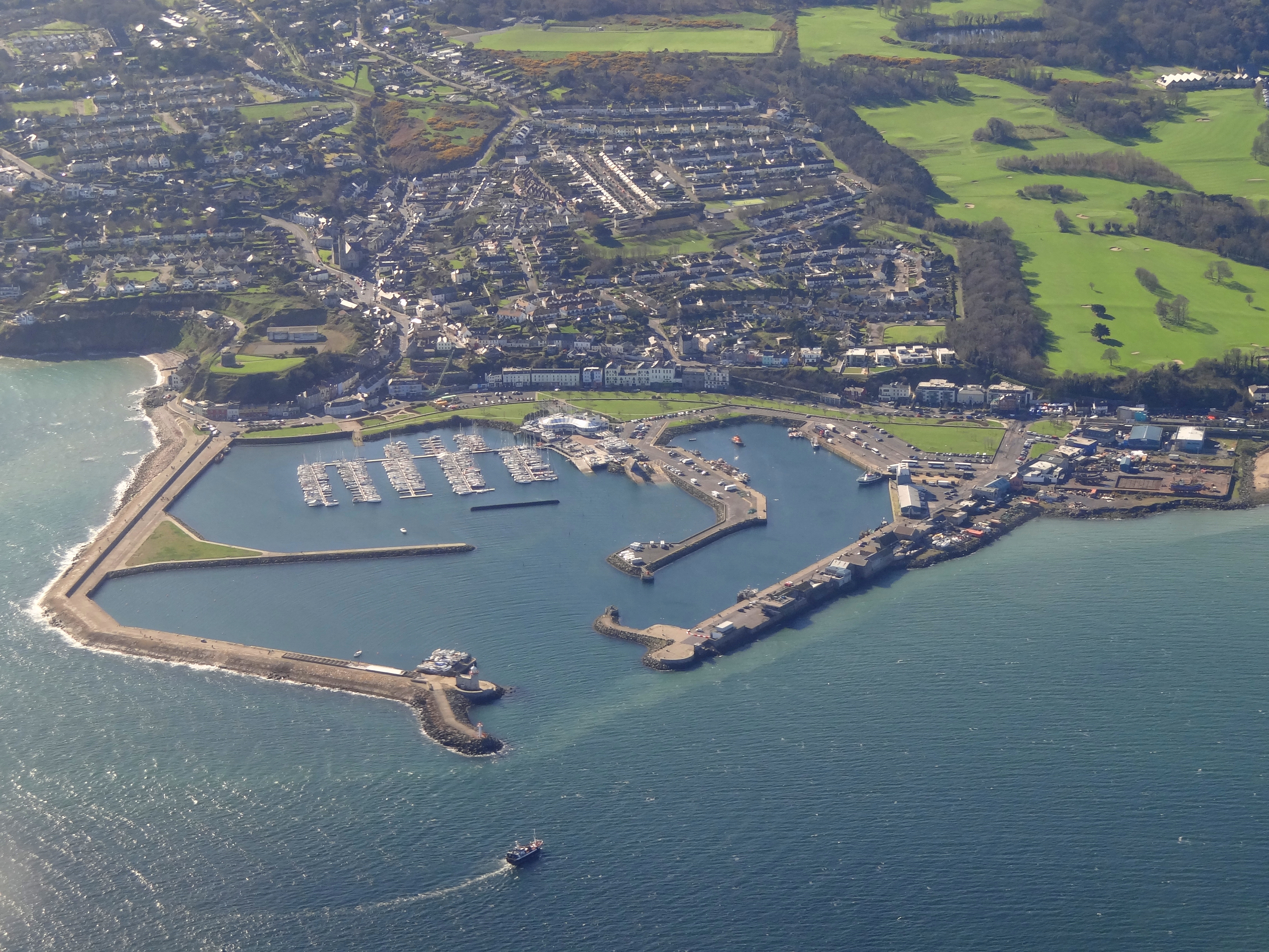 The town of Howth, north of Dublin, seen from a commercial flight approaching Dublin Airport in 2012. On the right edge of the photo (east) parts of the train station is showing. On a cliff on the left edge (west) there's the old Martello Tower, now the Museum of Vintage Radio. The golf course in the back is part of the Deer Park Hotel facilities